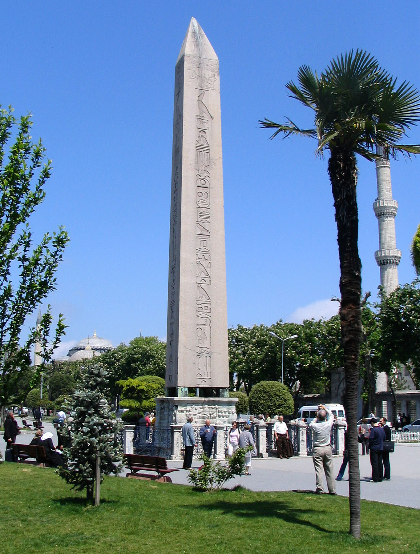 Obelisk of Thutmose III in the Hippodrome of Constantinople, Turkey. May 2006. Photo by Winstonza talk